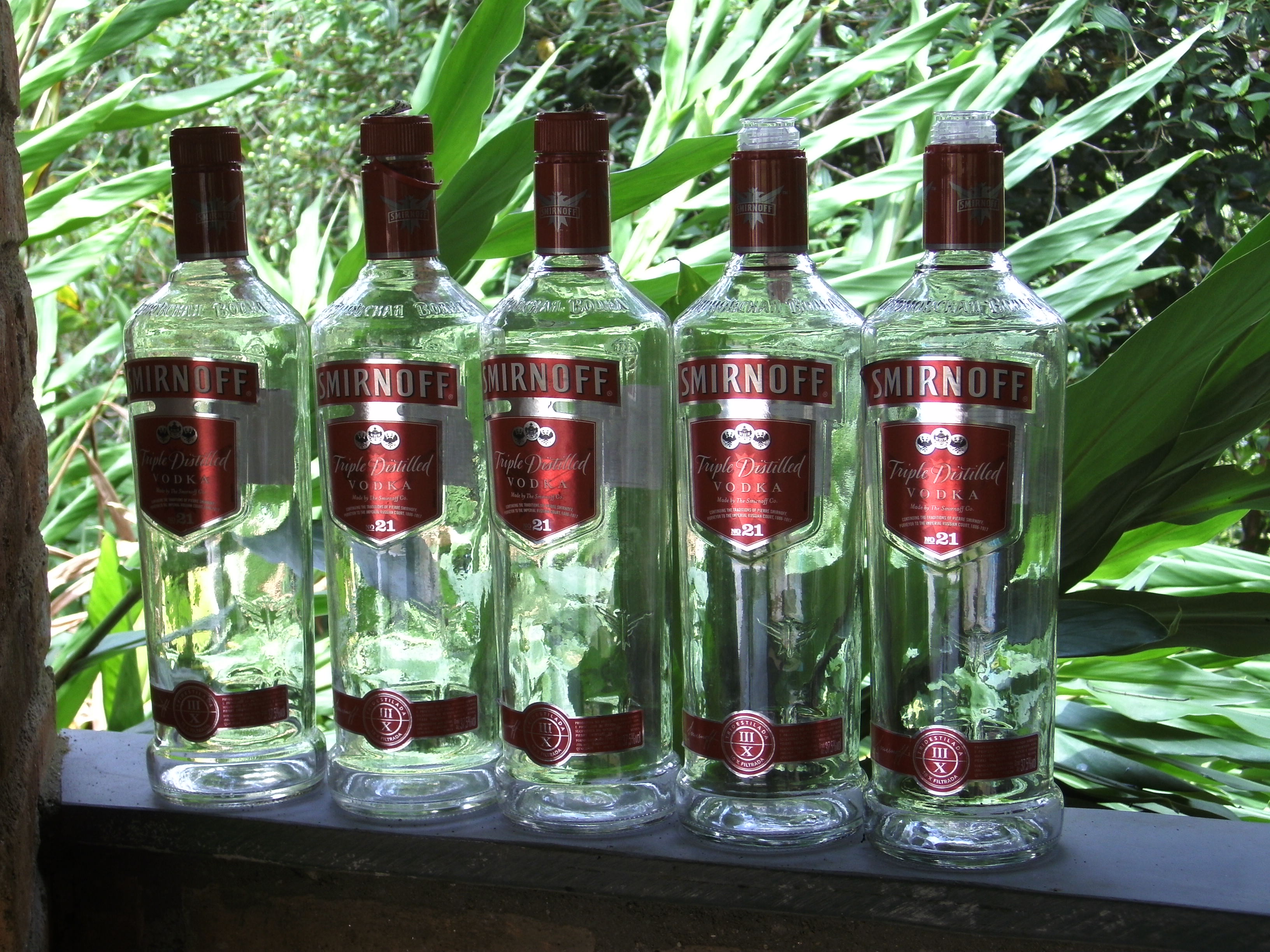 Smirnoff make in Brazil